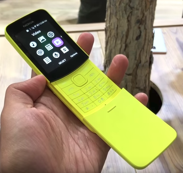 The Nokia 8110 4G, as seen at Mobile World Congress.